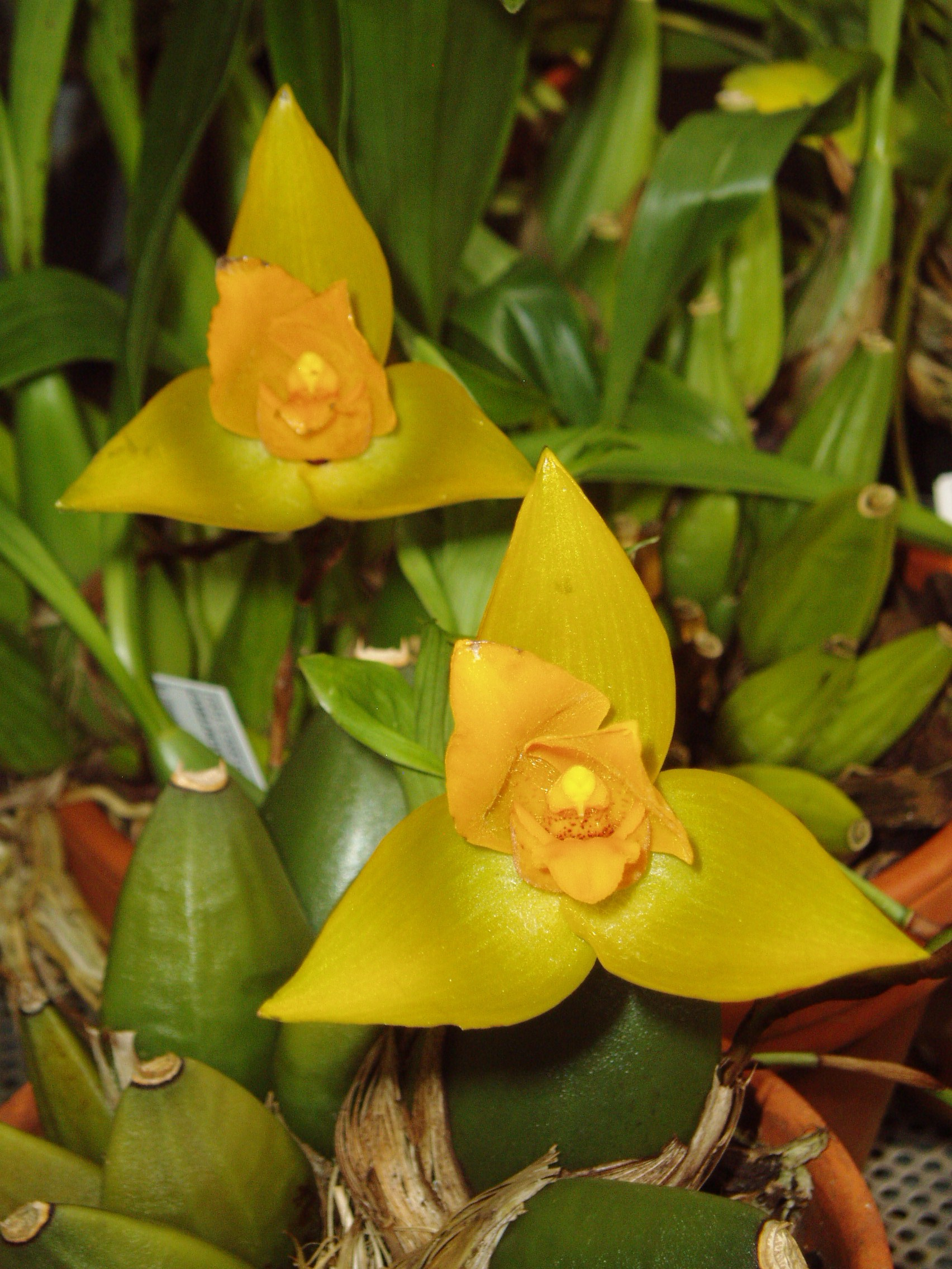 Lycaste aromatica, Gothenburg Botanical Garden